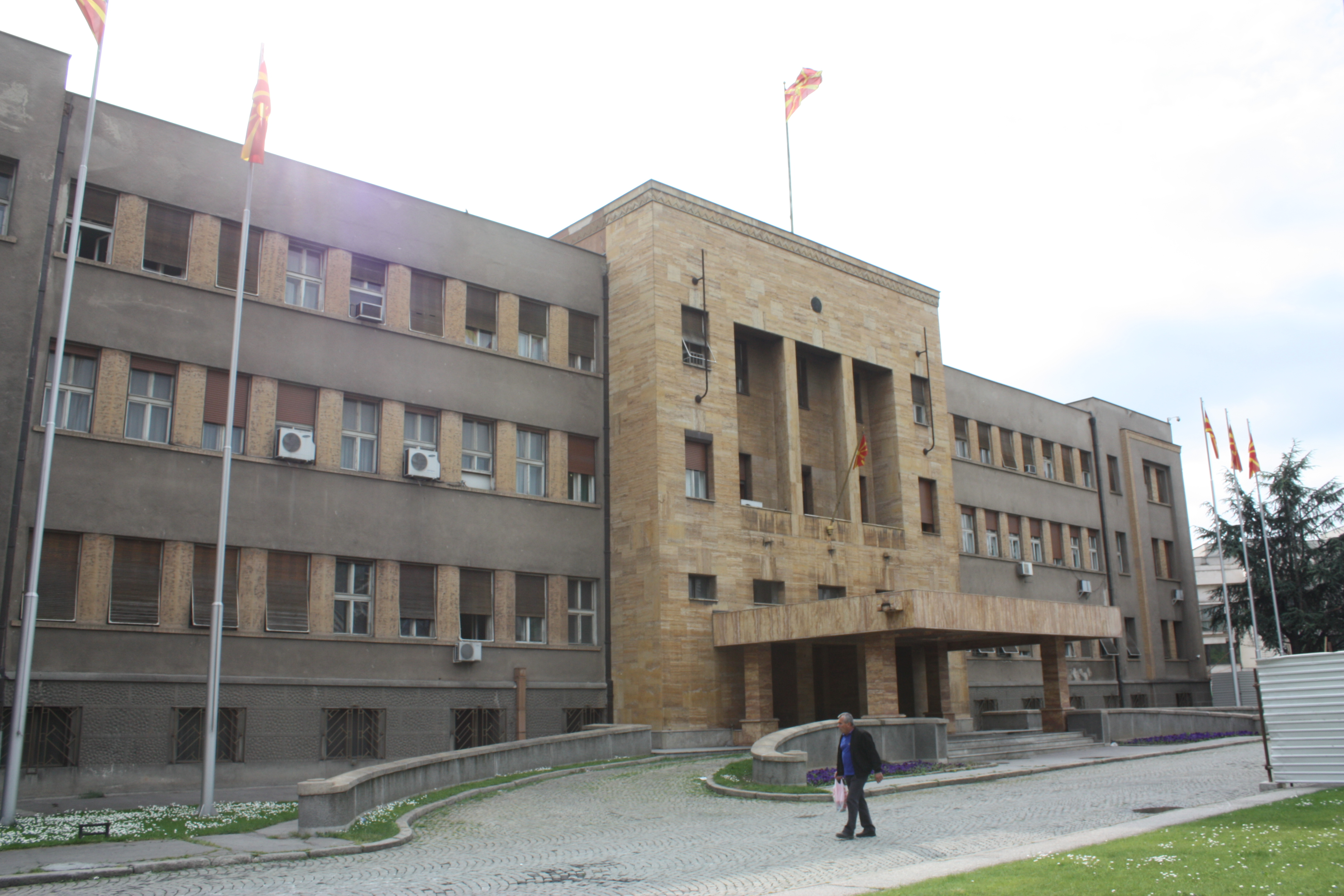 Skopje, capital and largest city of Macedonia